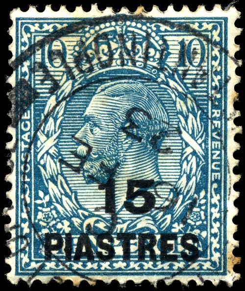 United Kingdom offices in the Turkish Empire 15-piastre stamp of 1921